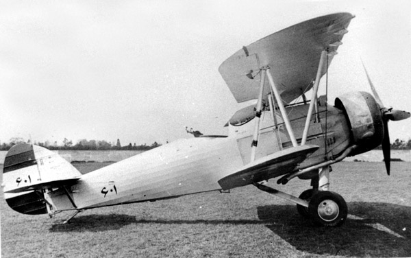 The first of 35 Hawker Hinds, no 601, arrived in the autumn of 1938. The local aircraft factory later completed a batch of twenty more. Iran accuired 55 aircrafts in 1938